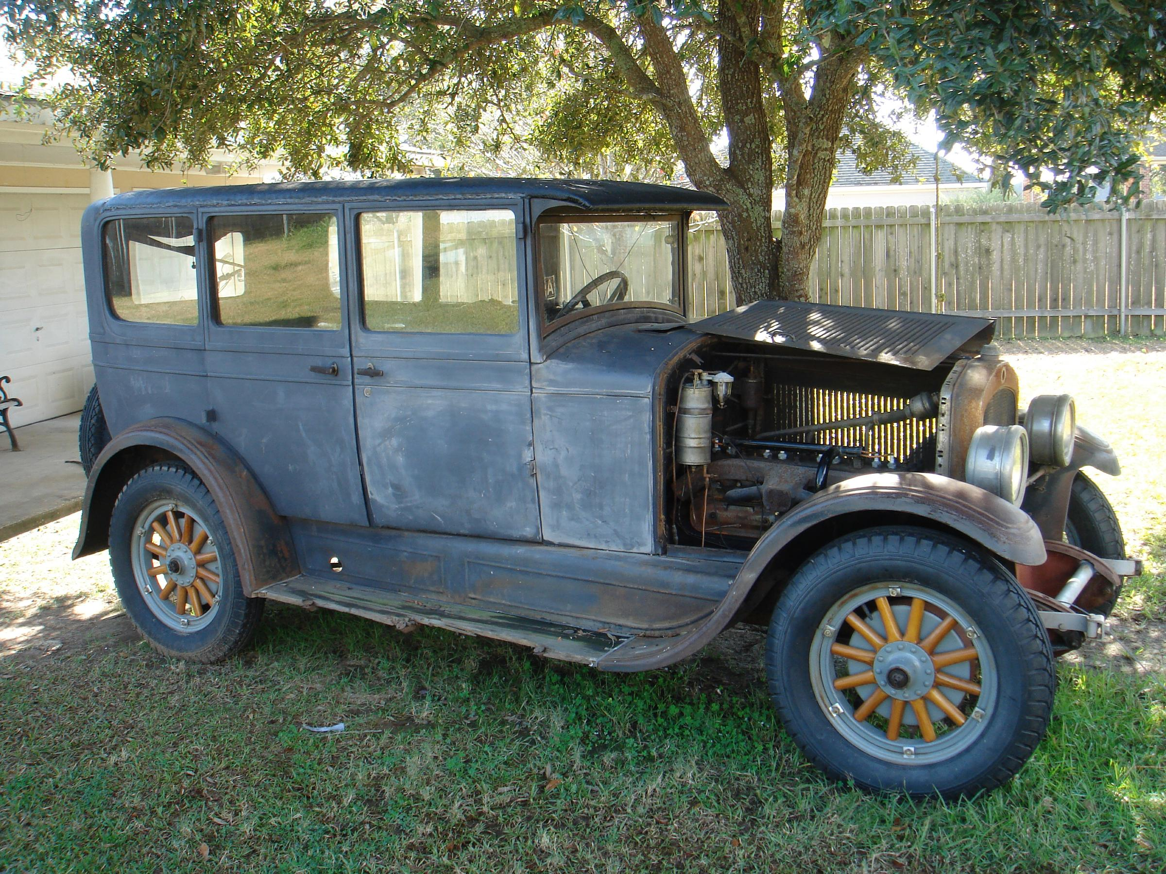 A 1928 Jordan Sedan, photo (donated under GFDL) by Mike Morgan. The car was formerly owned by Todd Goudeaux from Lafayette, and is now being restored by a member of the Jordan family in Houston, TX.